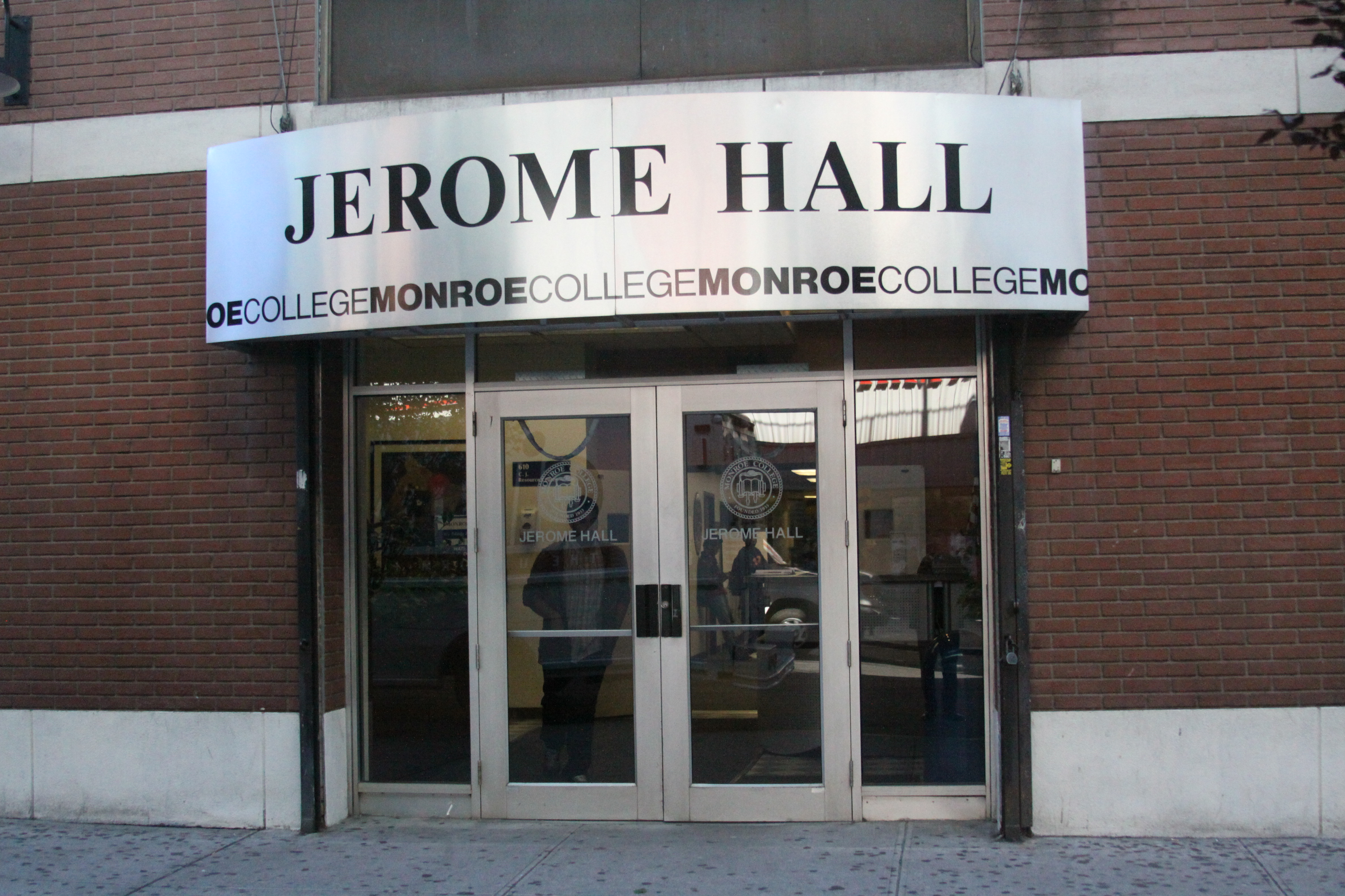 South Hall Monroe College Bronx Hall